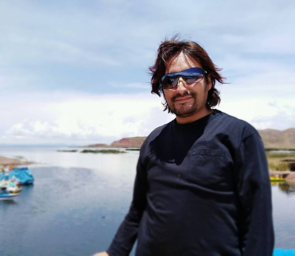 Pianist "El Piano de Los Andes" in 2019